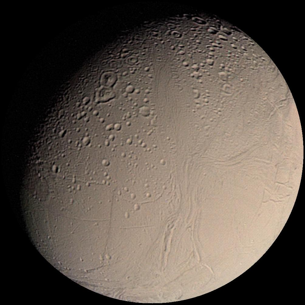 This color Voyager 2 image mosaic shows the water-ice-covered surface of Enceladus, one of Saturn's icy moons. Enceladus' diameter of just 500 km would fit across the state of Arizona, yet despite its small size Enceladus exhibits one of the most interesting surfaces of all the icy satellites. Enceladus reflects about 90% of the incident sunlight (about like fresh-fallen snow), placing it among the most reflective objects in the Solar System. Several geologic terrains have superposed crater densities that span a factor of at least 500, thereby indicating huge differences in the ages of these terrains. It is possible that the high reflectivity of Enceladus' surface results from continuous deposition of icy particles from Saturn's E-ring, which in fact may originate from icy volcanoes on Enceladus' surface. Some terrains are dominated by sinuous mountain ridges from 1 to 2 km high (3300 to 6600 feet), whereas other terrains are scarred by linear cracks, some of which show evidence for possible sideways fault motion such as that of California's infamous San Andreas fault. Some terrains appear to have formed by separation of icy plates along cracks, and other terrains are exceedingly smooth at the resolution of this image. The implication carried by Enceladus' surface is that this tiny ice ball has been geologically active and perhaps partially liquid in its interior for much of its history. The heat engine that powers geologic activity here is thought to be elastic deformation caused by tides induced by Enceladus' orbital motion around Saturn and the motion of another moon, Dione.